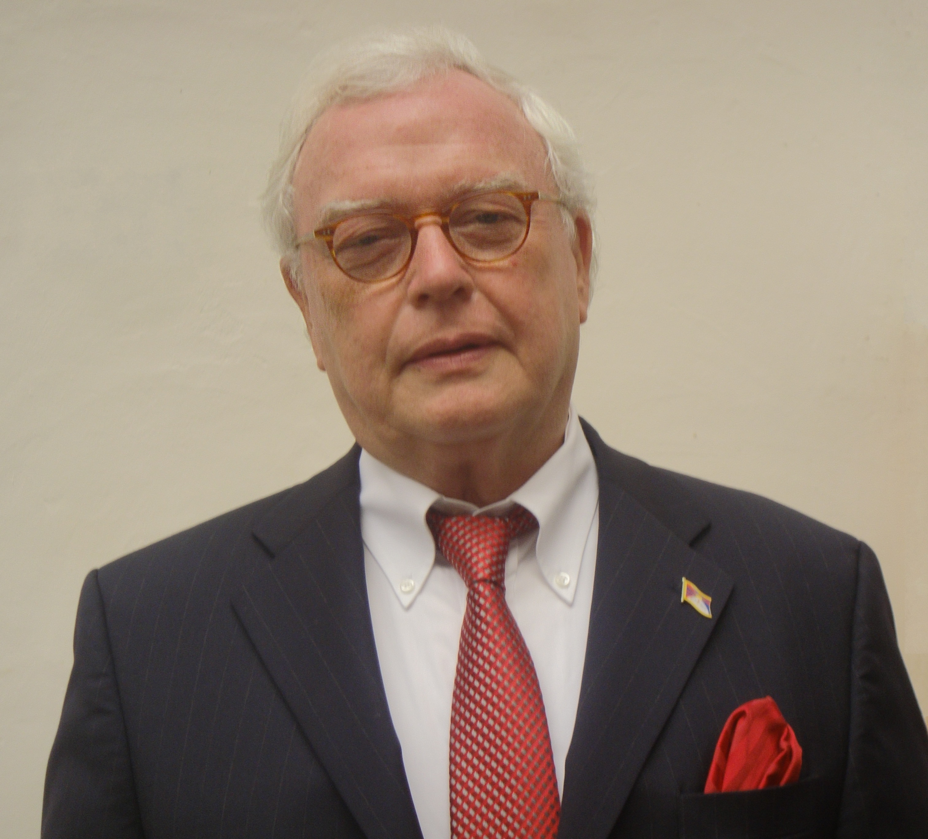 Michael Herrmann, initiator and CEO of the Rheingau Musik Festival, before the concert 23 August 2011 at Eberbach Abbey